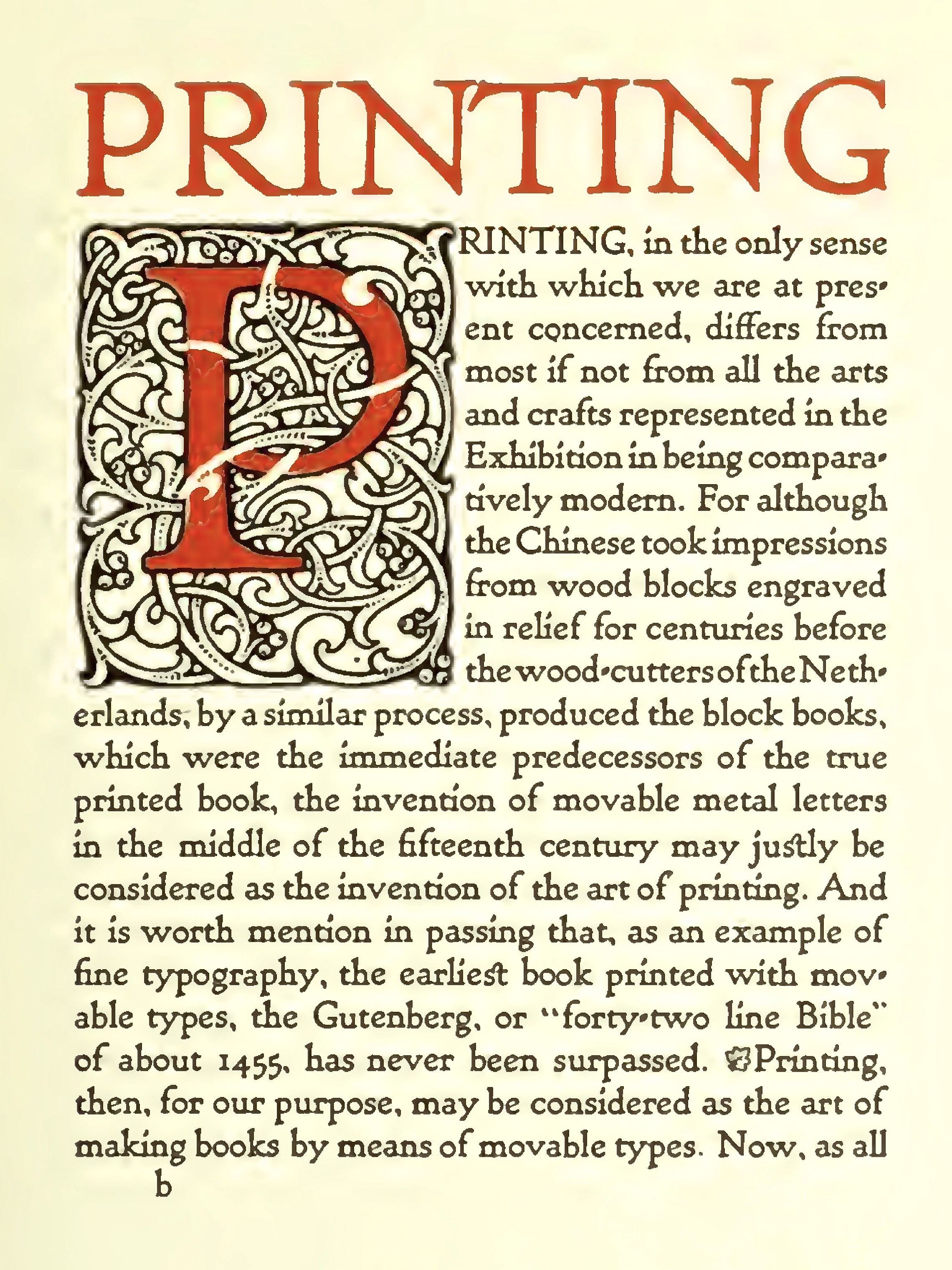 "Printing" by William Morris, as reprinted by Arts & Crafts period printers the Village Press, run by Will Ransom and Frederic Goudy